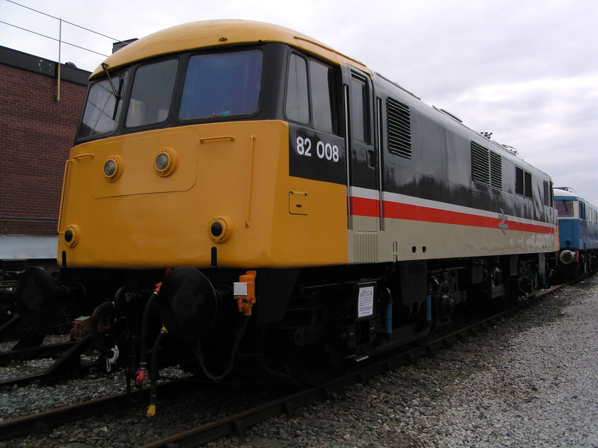 British Rail Class 82, no. 82008 on display at Crewe Works open day on 11th September 2005. Image by Phil Scott (Our Phellap)